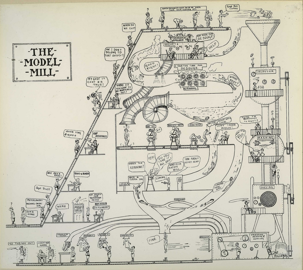 Modern Mill ; The Model Mill [a cartoon showing the cleaning and delousing of soldiers in a large machine, probably circa World War 1] (probably done by a Museum staff artist, probably influenced by Goldberg).